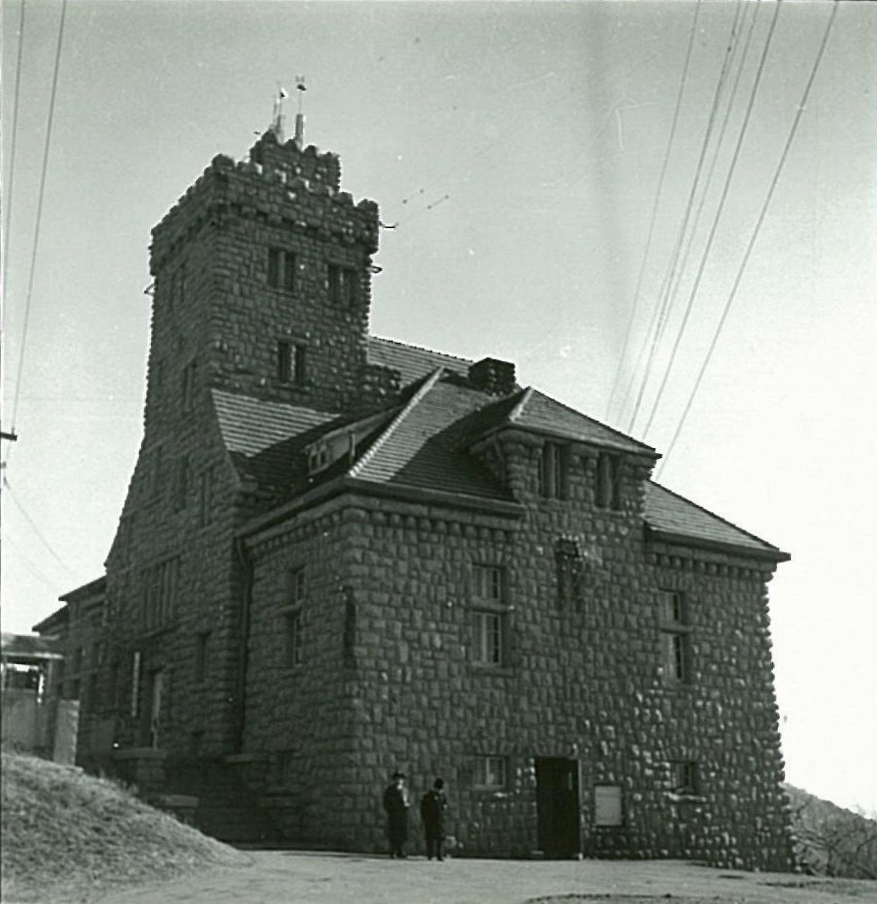 This file has been extracted from another file: 華北交通アーカイブ 3705-026706-0.jpg